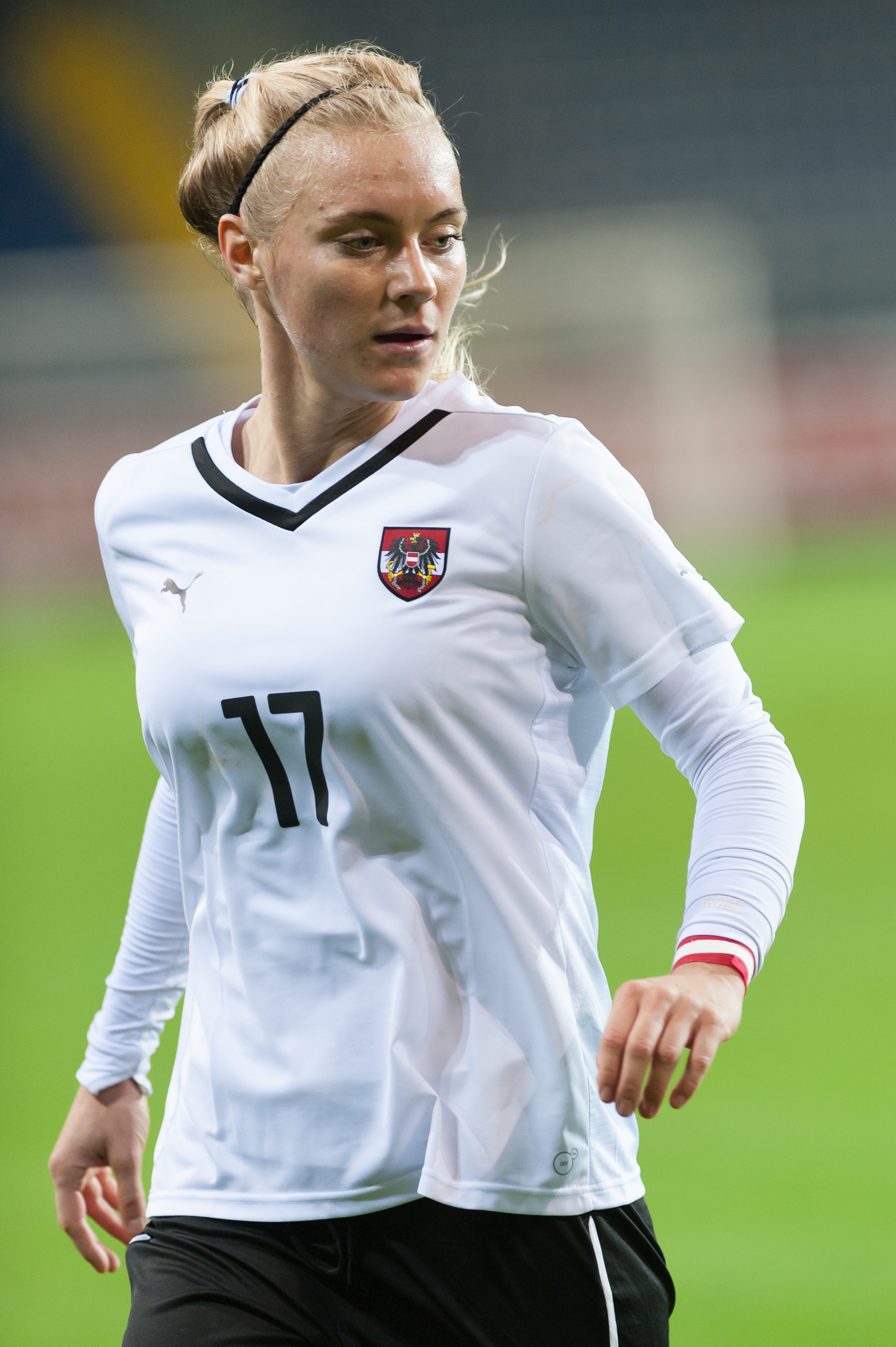 FIFA Women's World Cup 2015: Qualifying Round St. Pölten, 13.09.2014 Sarah Puntigam